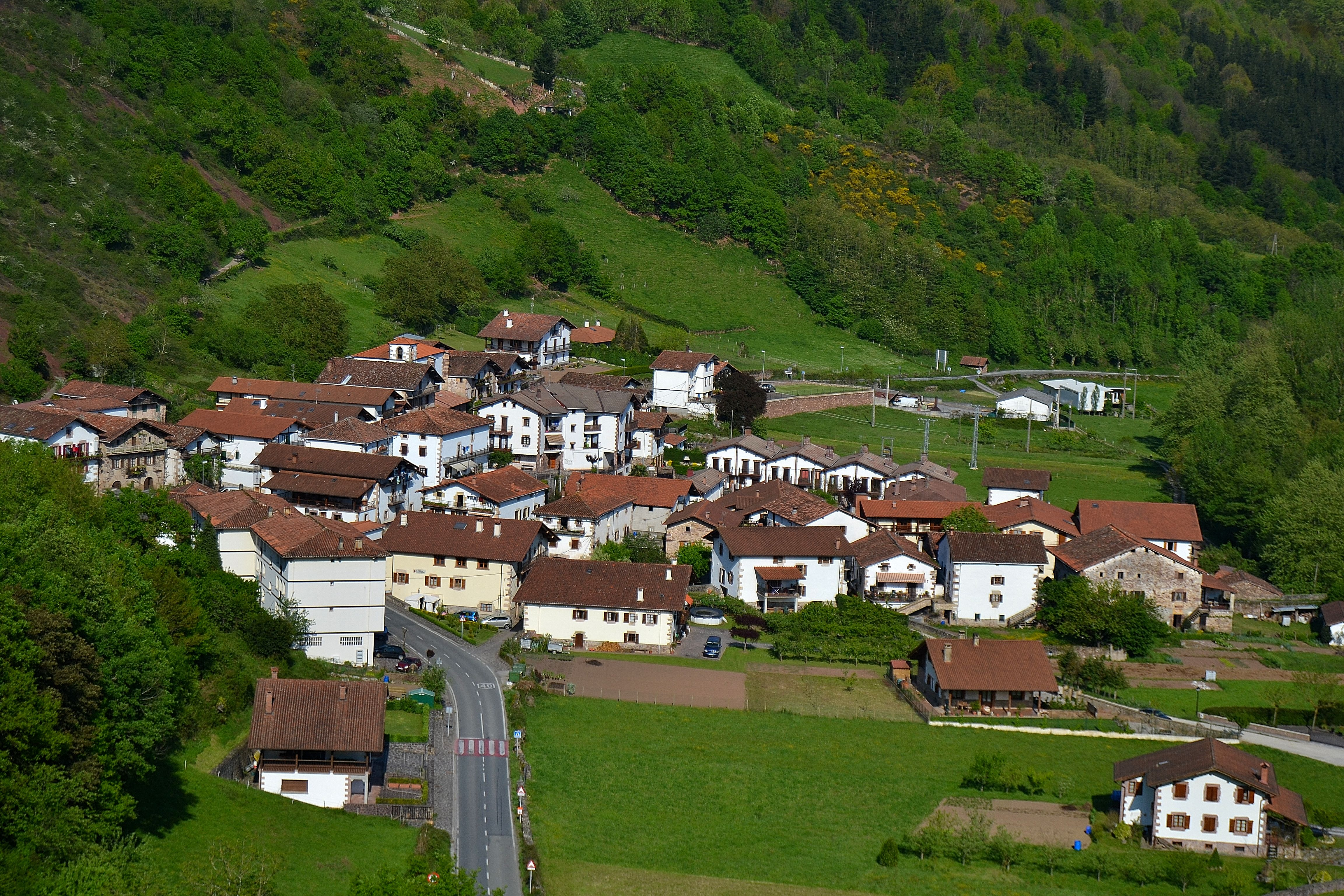 Elgorriaga. Malerreka, Navarre. Basque Country.